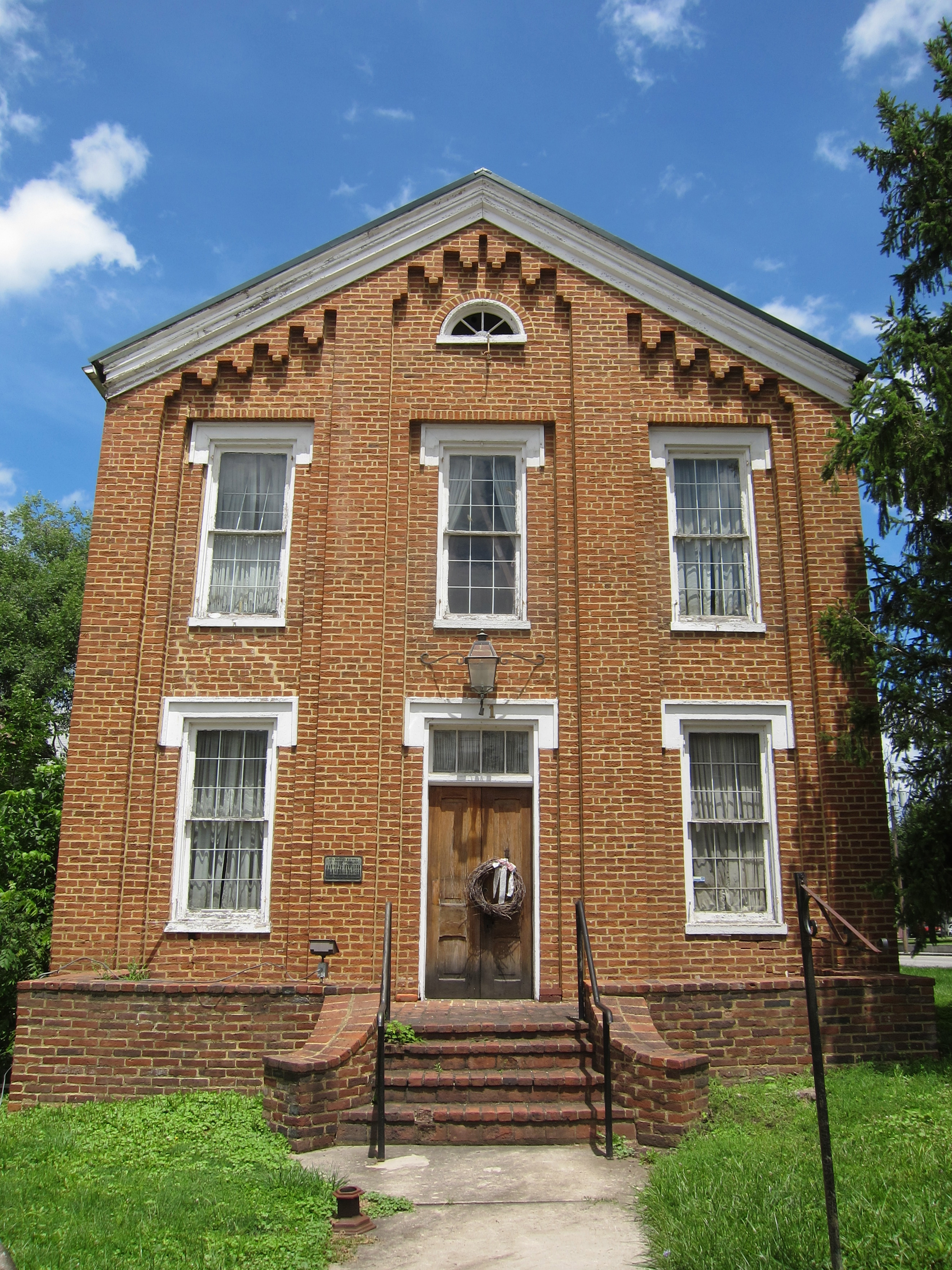 Literary Hall (1870) is a 19th century brick edifice located at the corner of Main (U.S. Route 50) and High (West Virginia Route 28) Streets in Romney in the U.S. state of West Virginia. Literary Hall formerly served as the meeting place for the Romney Literary Society.